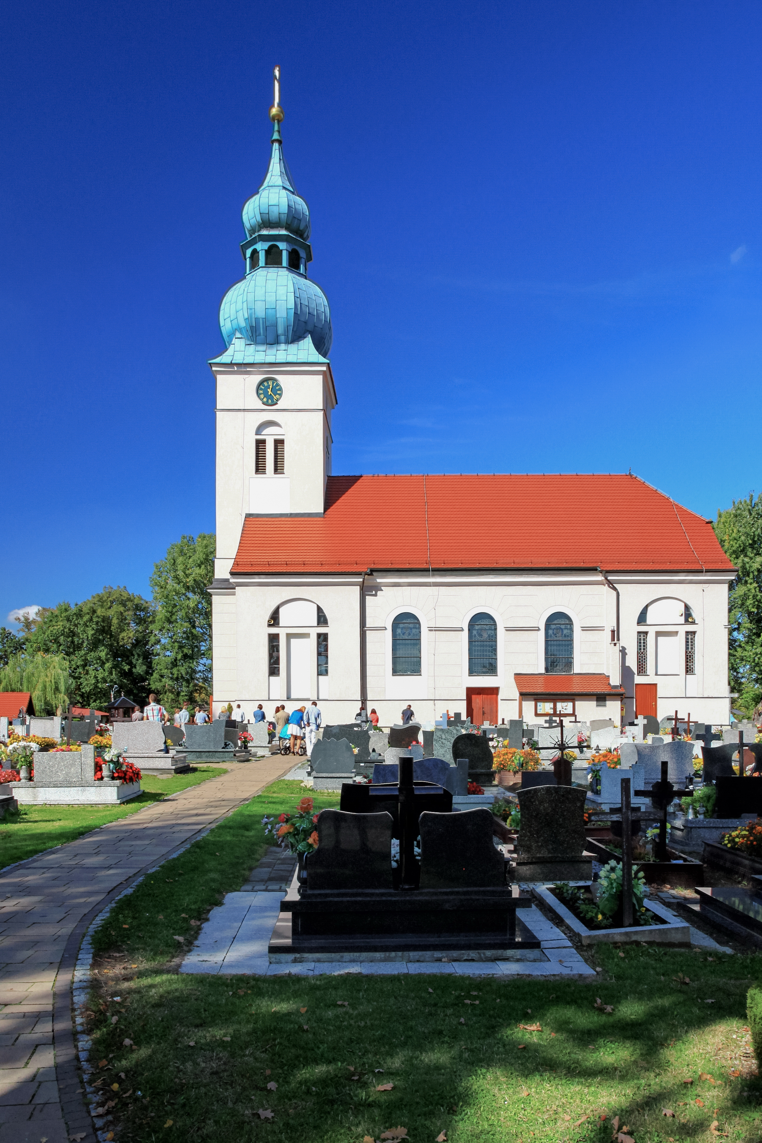 Church of the Assumption of the Blessed Virgin Mary. Studzionka, Silesian Voivodeship, Poland.